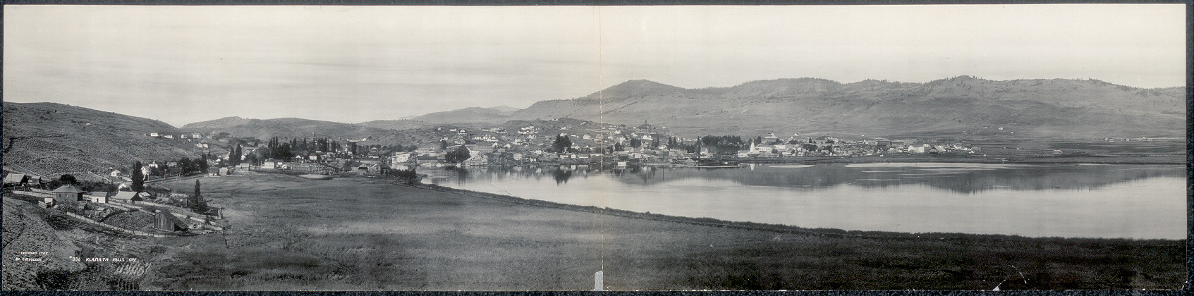 Klamath Falls, Oregon, 1909.